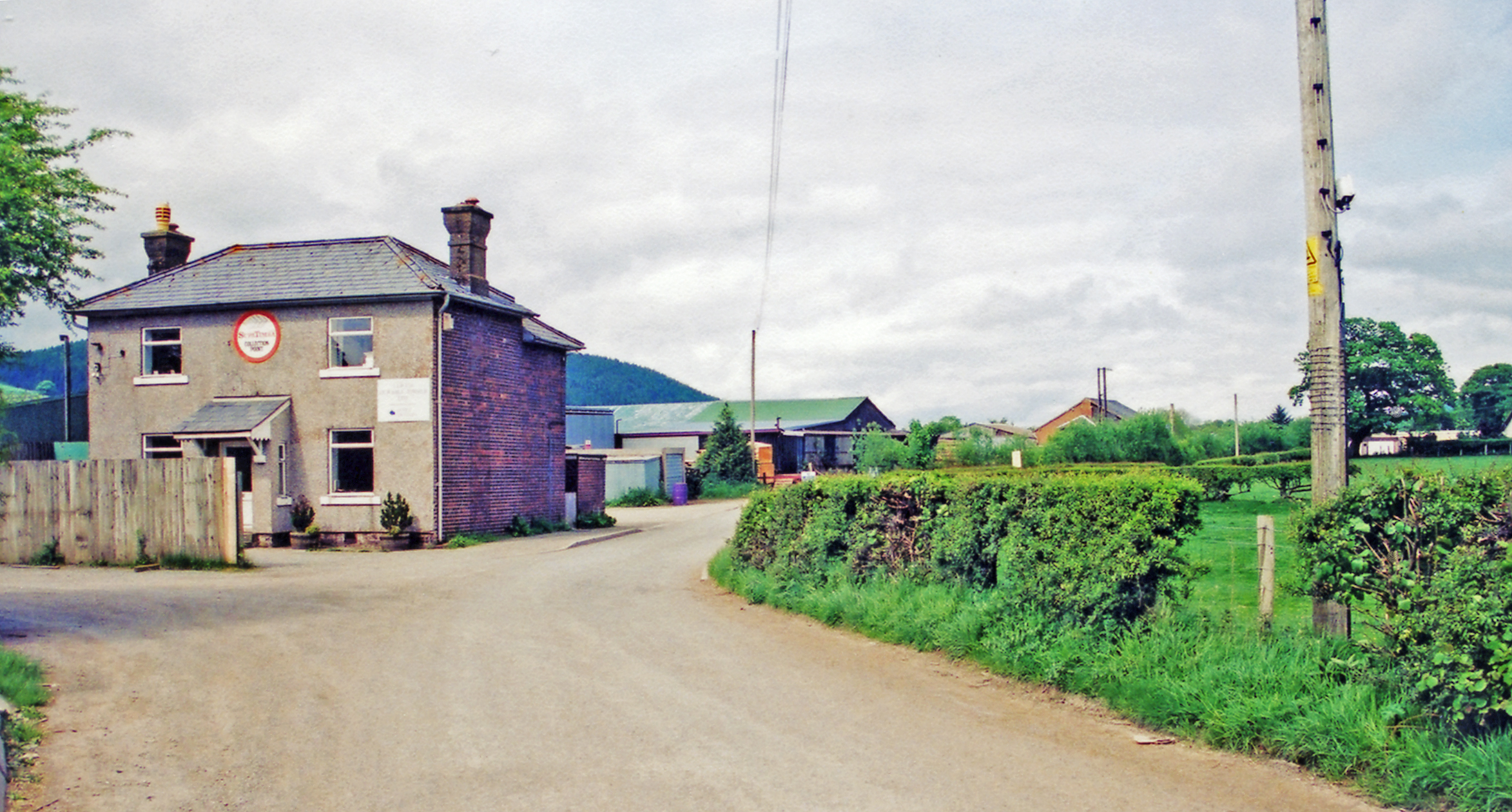 Llandrillo: site/remains of station, 2001. View northward, towards Corwen, Llangollen and Ruabon, where until closed by floods 14/12/64 and officially 18/1/65, the ex-GWR Ruabon - Llangollen - Corwen - Dolgellau - (Barmouth) line crossed, the station being on the left.